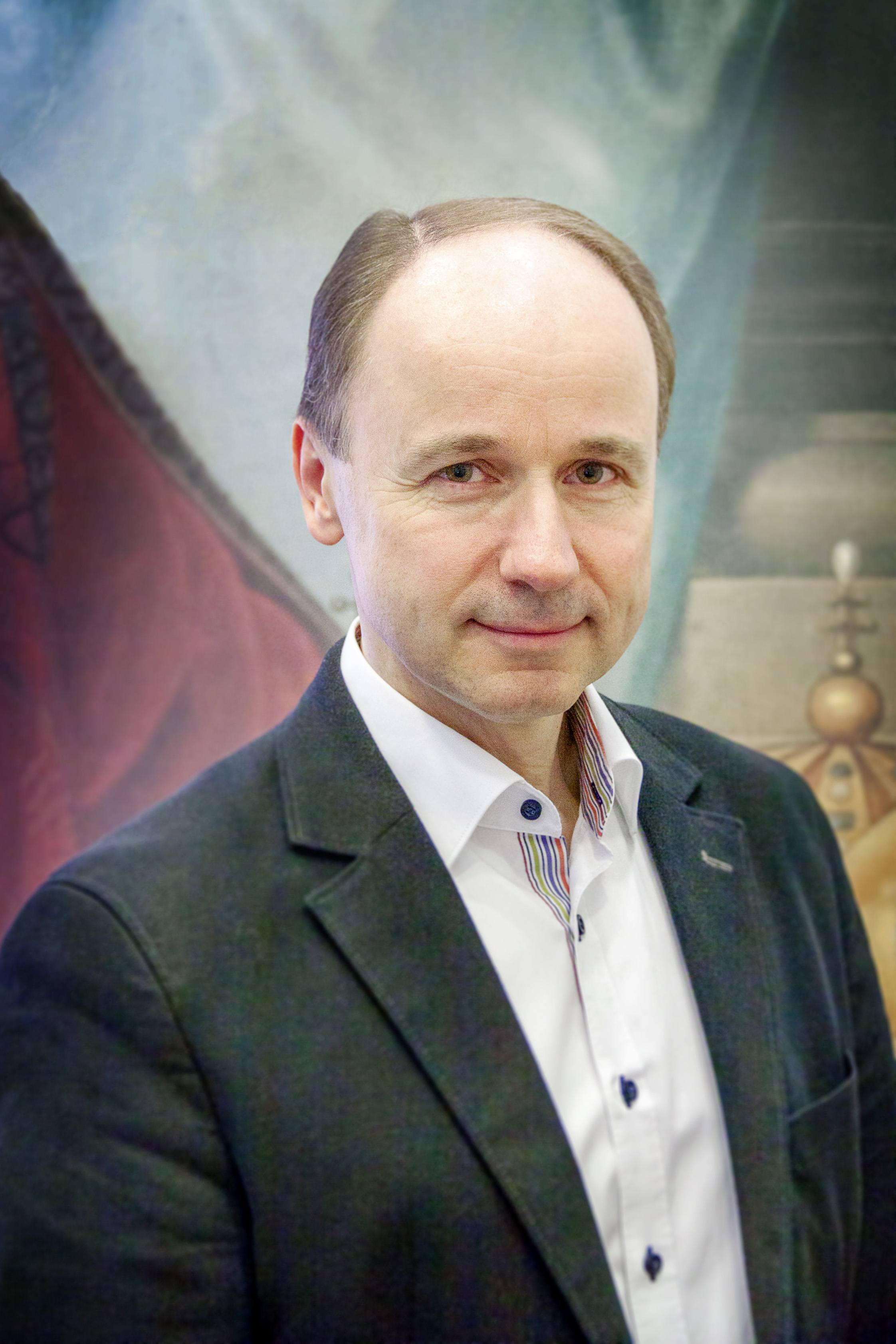 Herbert Fischerauer